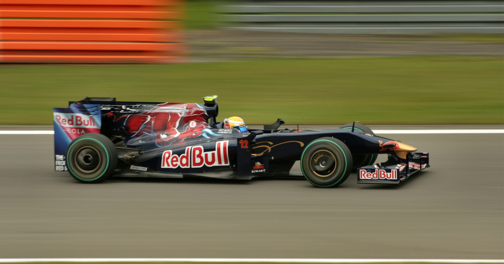 Sébastien Buemi driving for Scuderia Toro Rosso at the 2009 German Grand Prix.